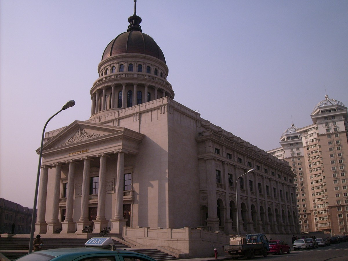 Concert Hall of Xiaobailou, Tianjin